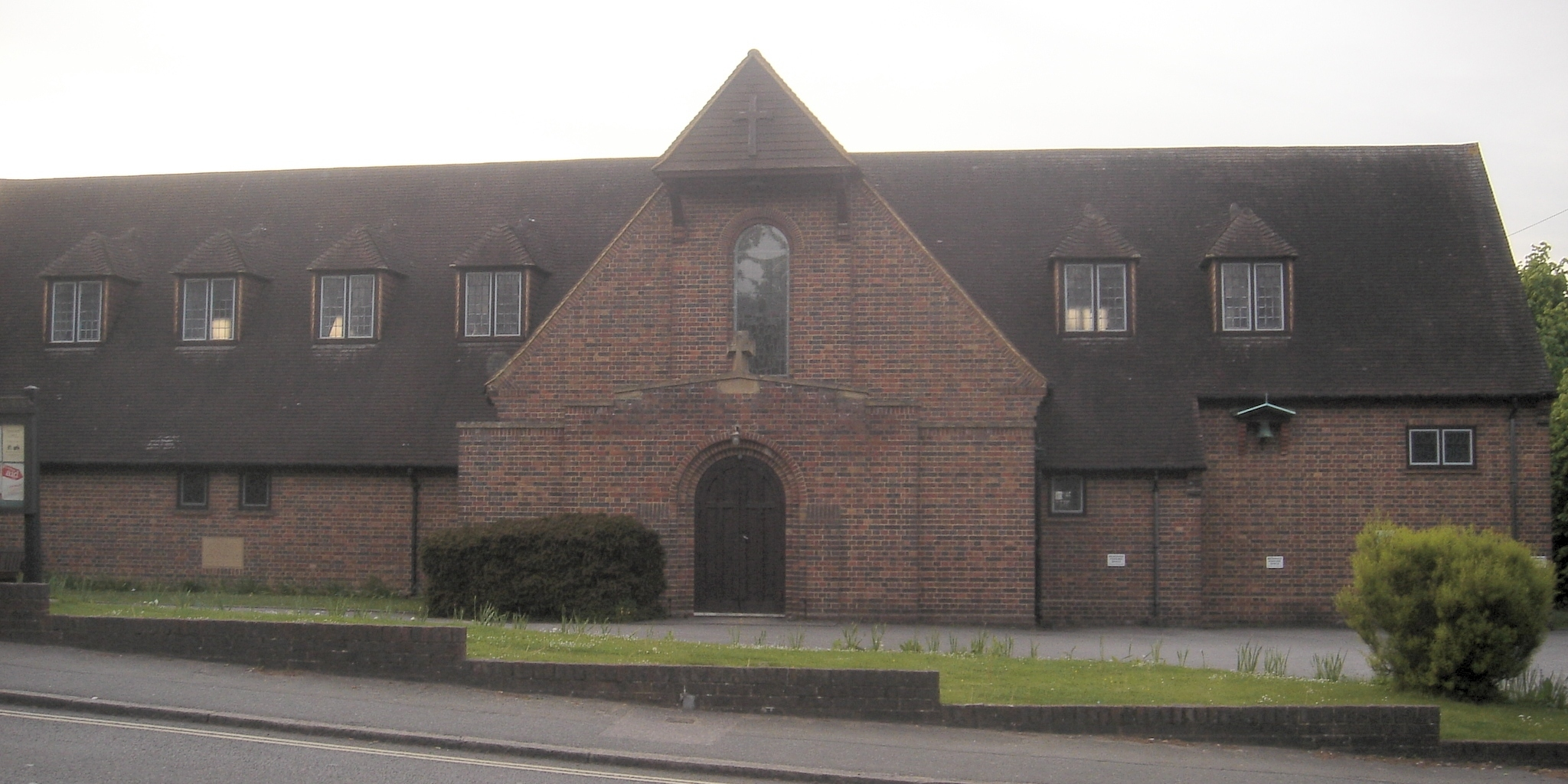 St Richard's parish church, Sydney Road, Haywards Heath, District of Mid Sussex, West Sussex, England. Built 1937–42.